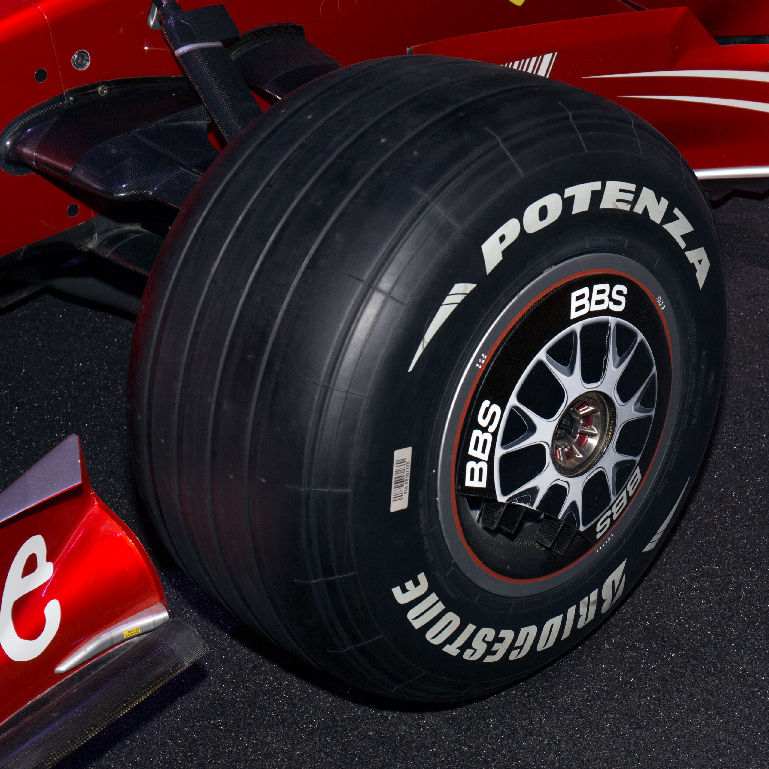 Ferrari F2007 tire and wheel cover